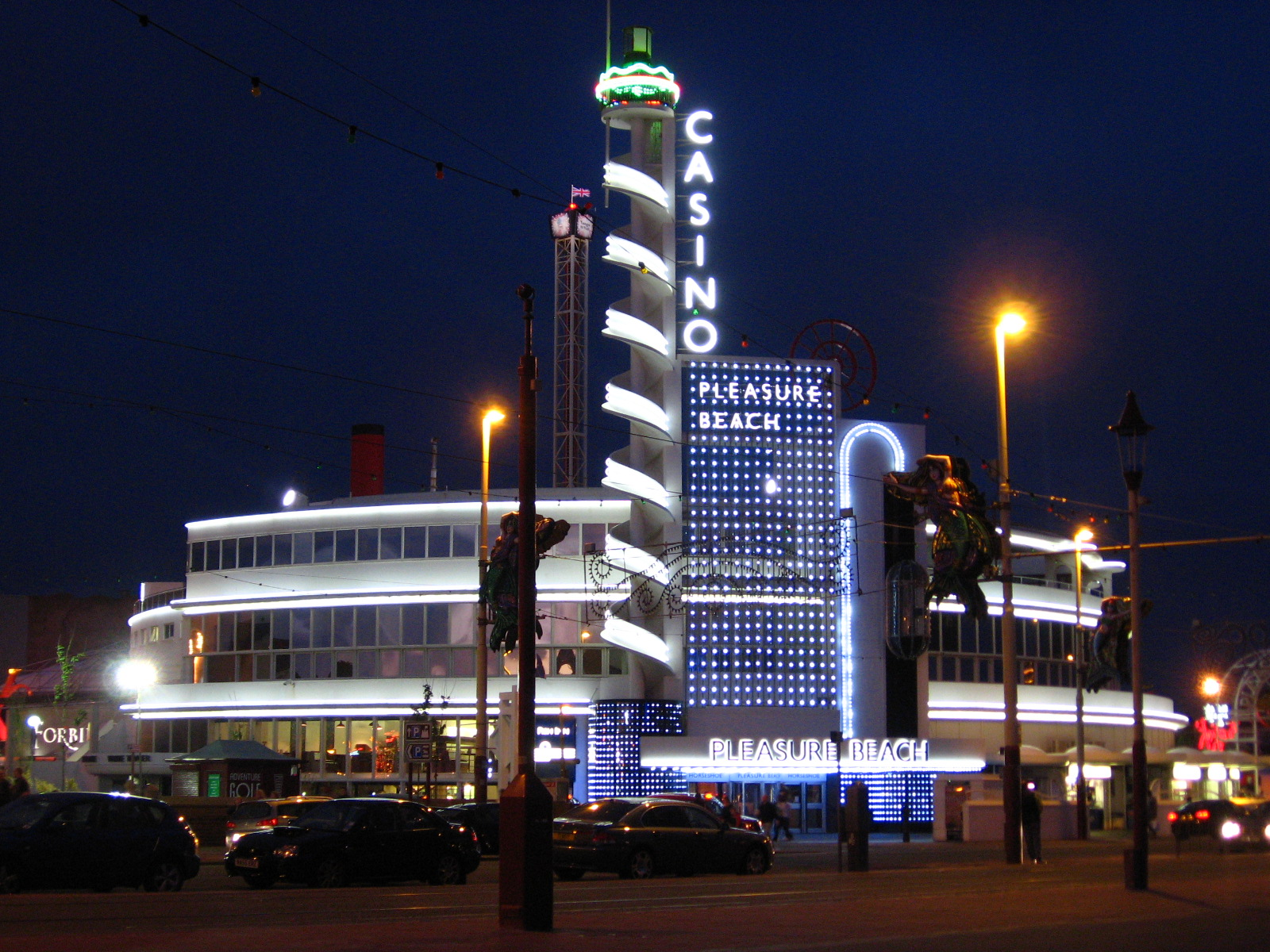 blackpool